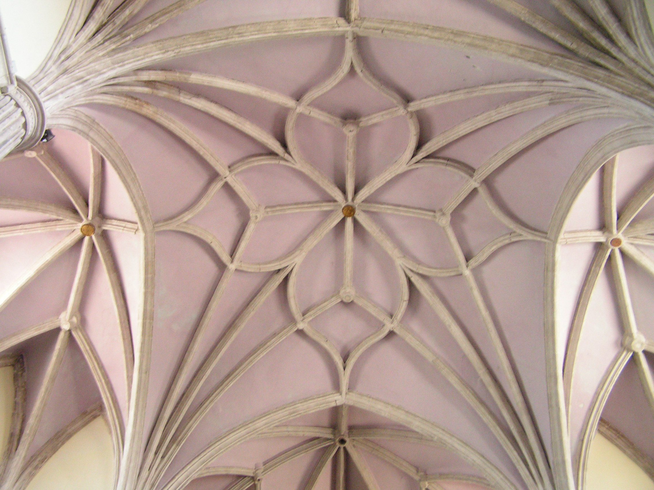 Church of Coca in Spain.